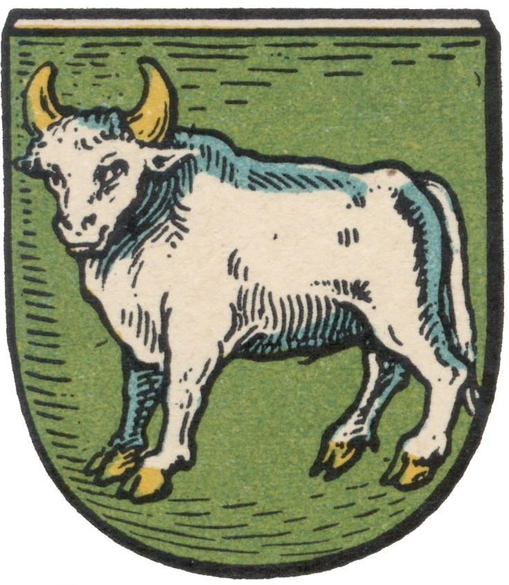 The original (historically) Coat of Arms of Polish village Uraz